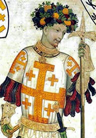 Godefrey of Bouillon, pictured in a fresco from the Baronial Hall of the Castello della Manta in Northern Italy, whose frescoes were painted by an anonymous master craftsmen and finished shortly after 1420. Based on this, the original author must have been dead for more than 100 years. He wears a Jerusalem or Crusader's cross.